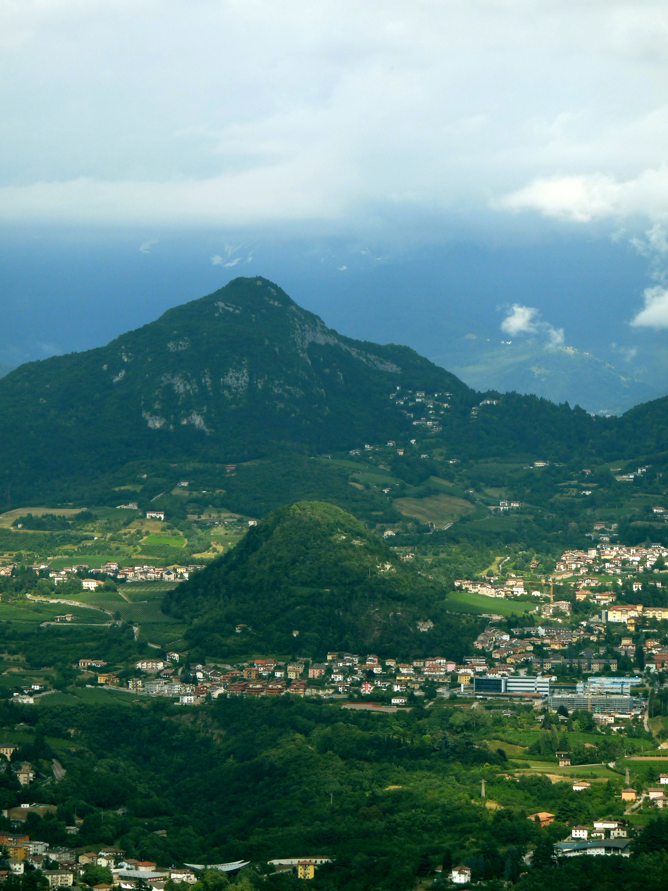 Trento (Italy): the Saint Agata hill over Povo and the mount Celva viewed from Sardagna. The red square on top of mount Celva is the antenna of a TV transmitter